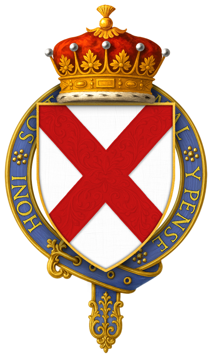 Coat of arms of Sir Gerard FitzGerald, 8th Earl of Kildare, KG See Kildare's stall plate, still intact, within its original stall at St. George's Chapel - argent a saltire gules.